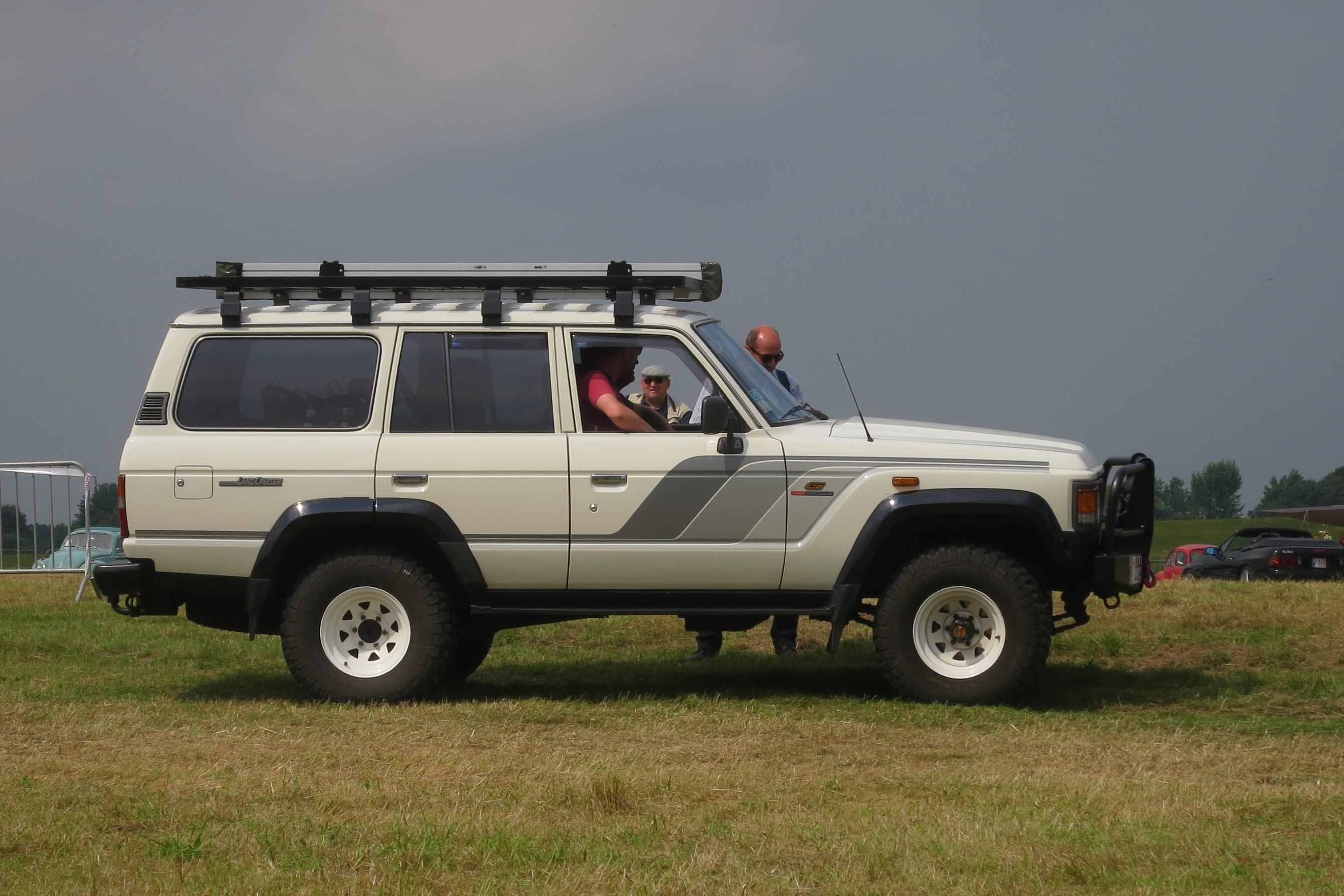 Toyota Land Cruiser arriving Schaffen-Diest 2016